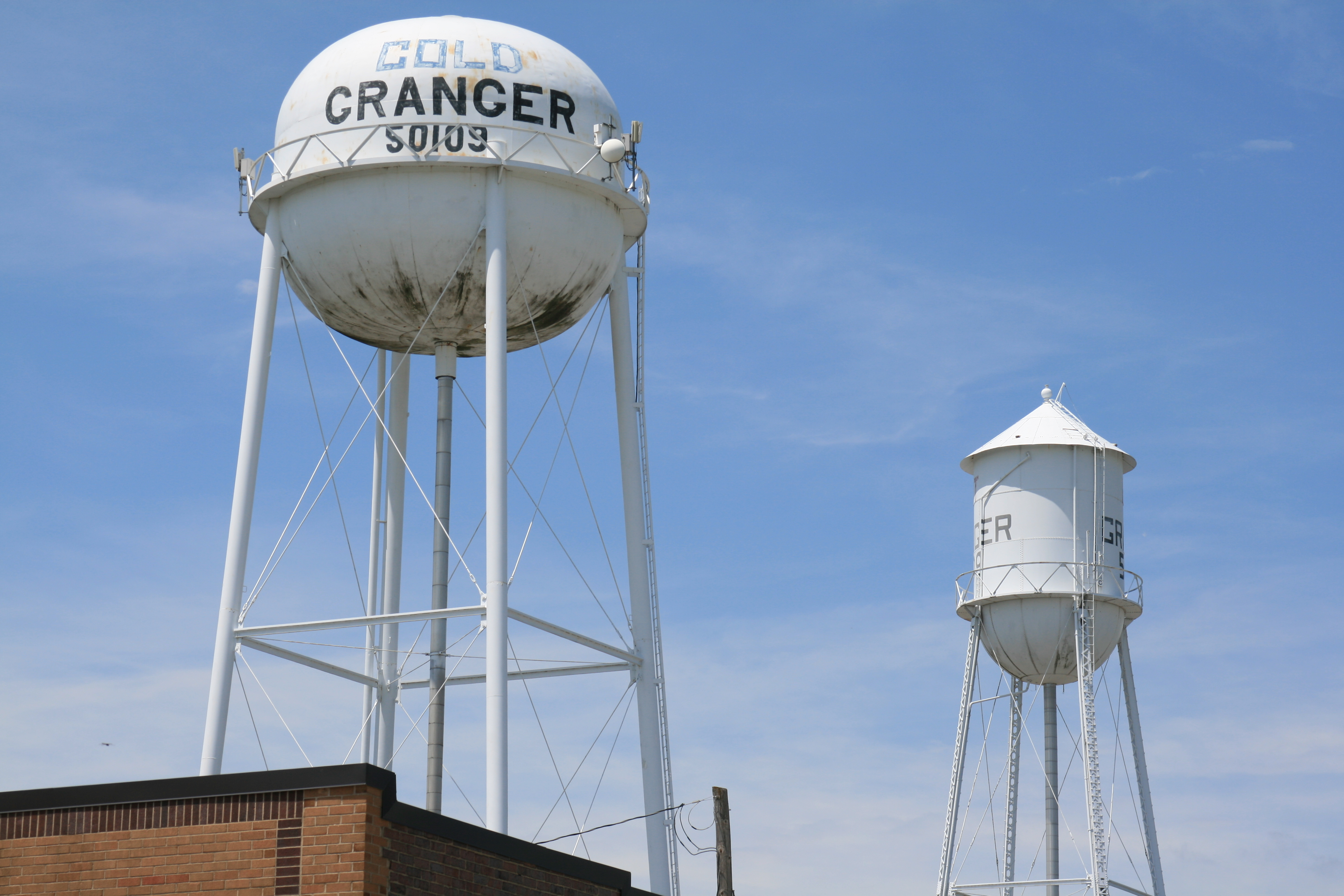 The "Hot" & "Cold" water towers in Granger, Iowa, as seen from the Library